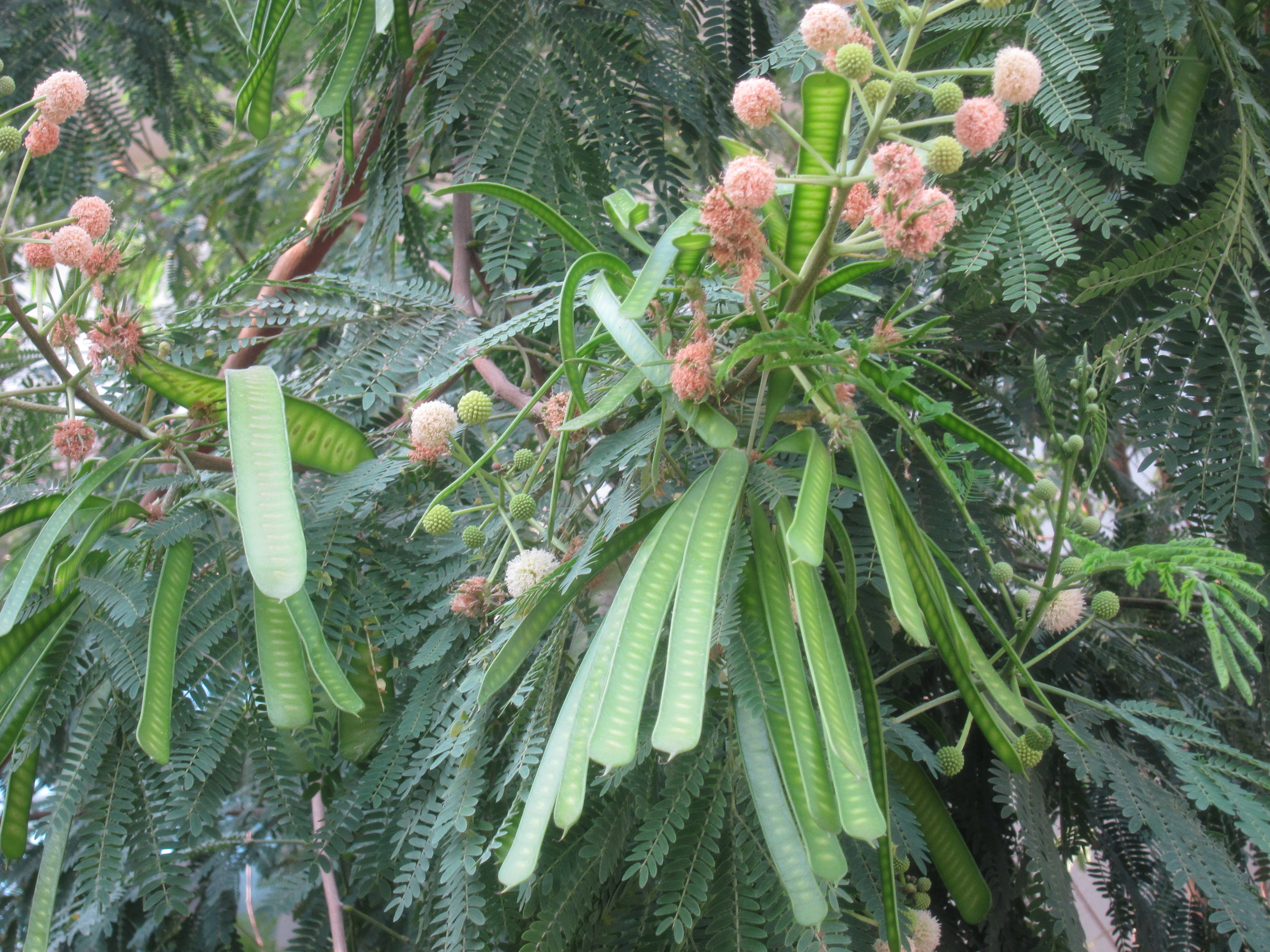 Subabul Leucaena leucocephala - Scientific Name Fabaceae family പീലിവാക, സുബാബുൾ